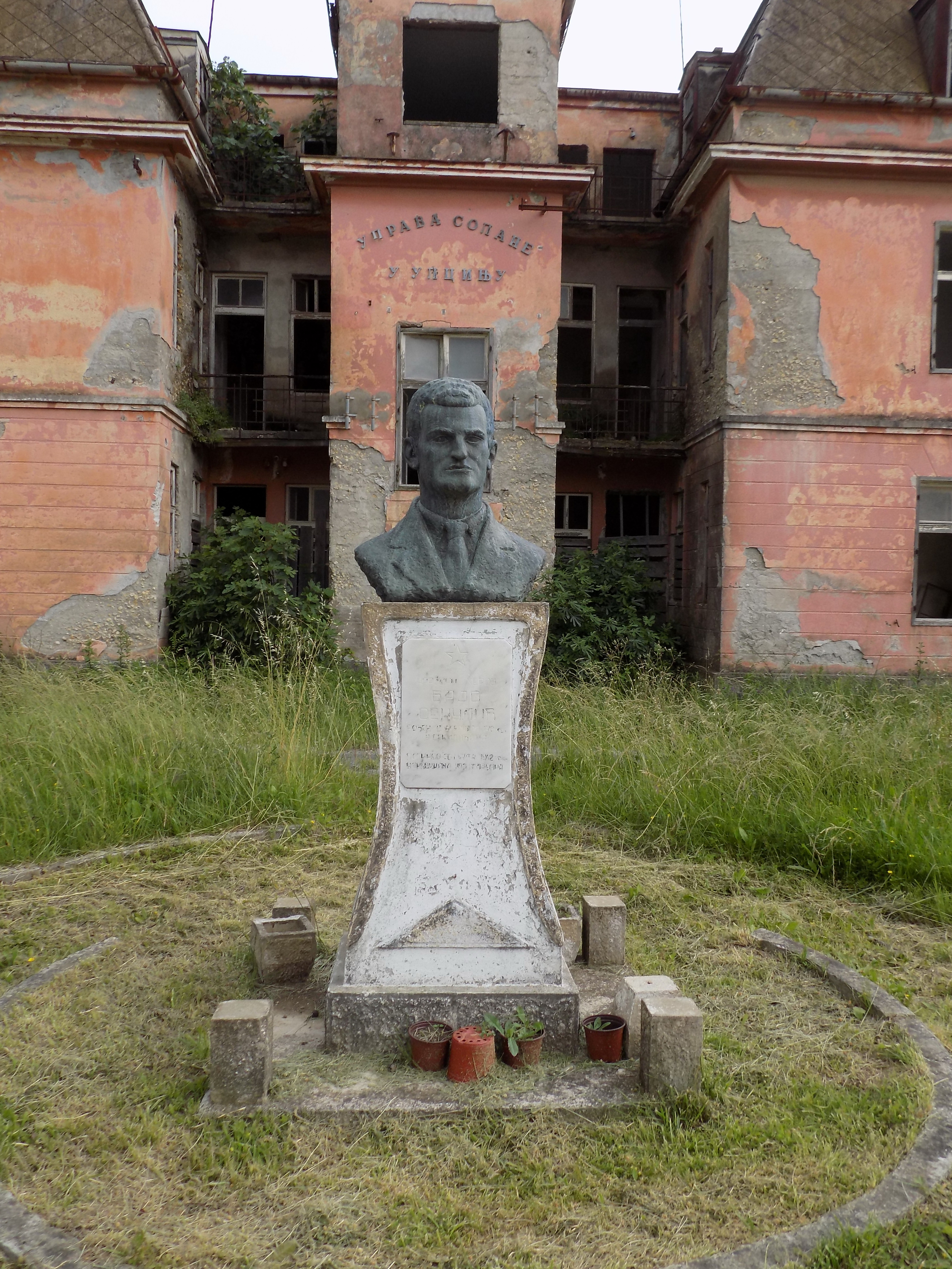 Ulcinj Salinas, important bird area